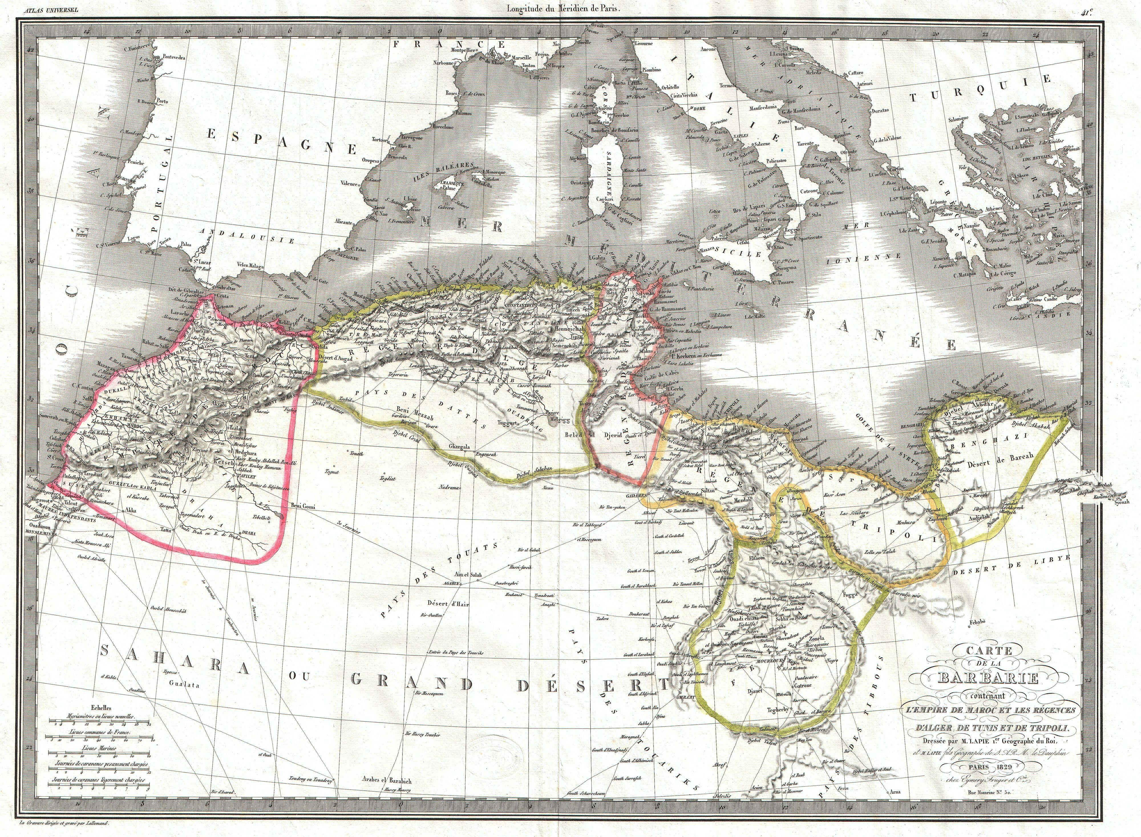 An attractive map 1829 map of Barbary Coast by the French cartographers Pierre and Alexander Lapie. Depicts the western Mediterranean and the northwestern part of Africa from Morocco to Benghazi. Exhibits the typical detail and scientific precision of Lapie maps. Notes caravan routes across the Sahara, topographical features, Oases, and desert Kingdoms. Includes the Kingdoms of Morocco, Tunisia, Alger, Fezzan and Tripoli. Also includes the Balearic Isles and parts of Spain, Italy and Greece. Longitude measured from the Paris meridian. Prepared as plate no. 41 for the 1829 issue of Lapie’s Atlas Universel de Geographie Ancienne et Moderne.